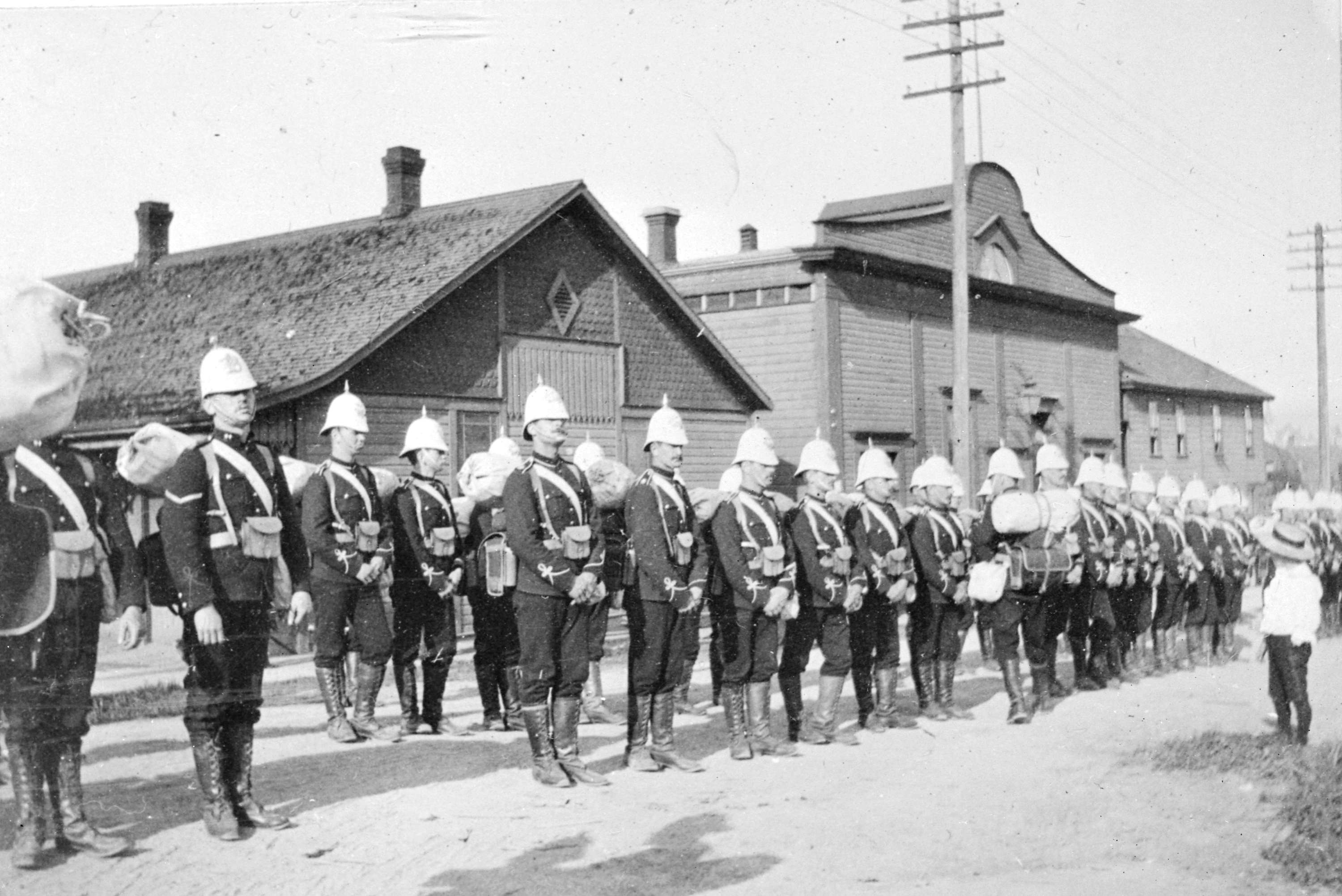 Yukon Field Force in Vancouver, in front of drill hall on Pender Street; City of Vancouver have declared this image to be in the public domain